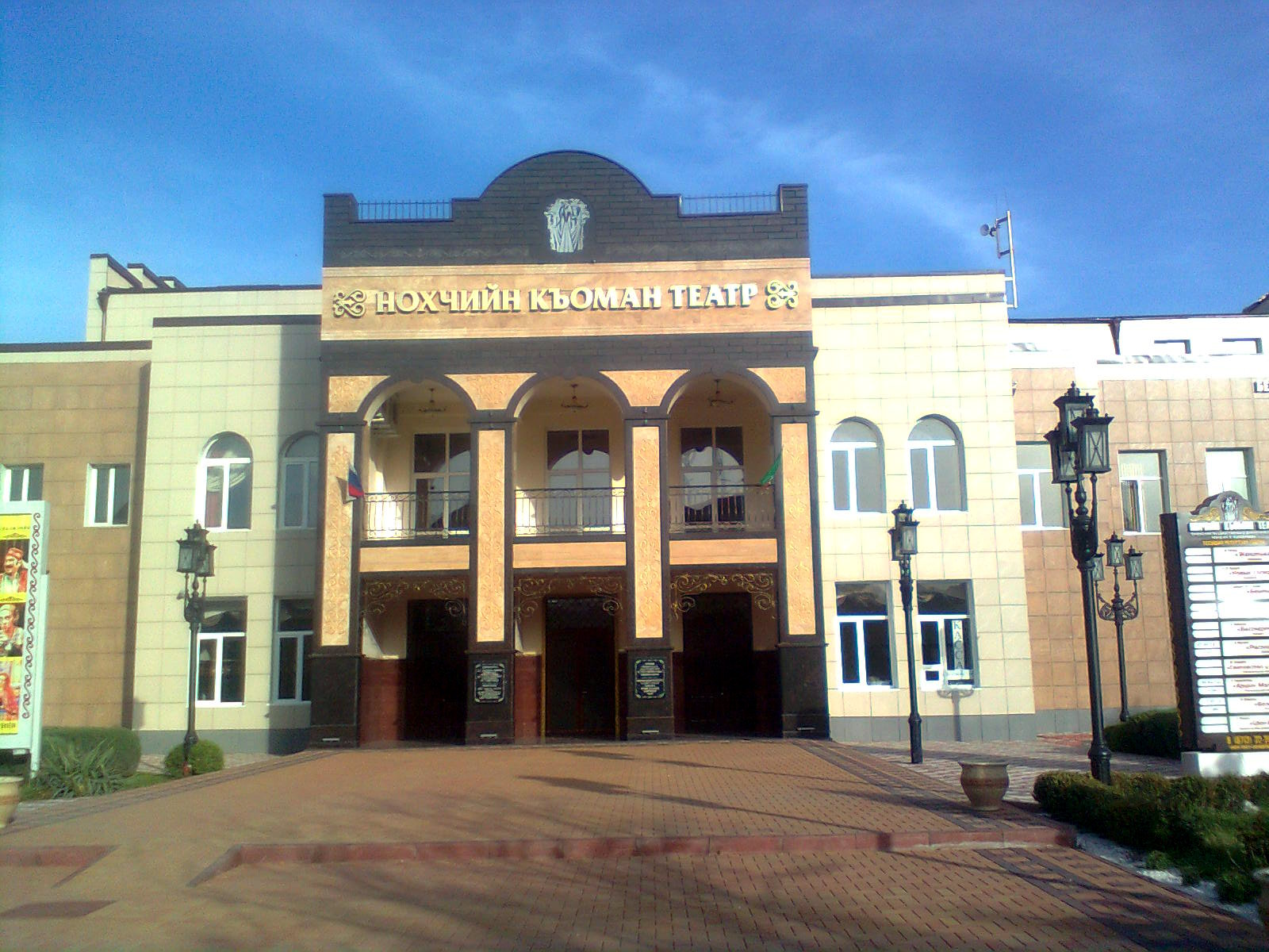 Chechen Drama Theatre